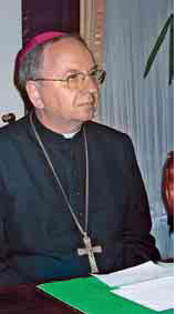 bp Stanisław Budzik